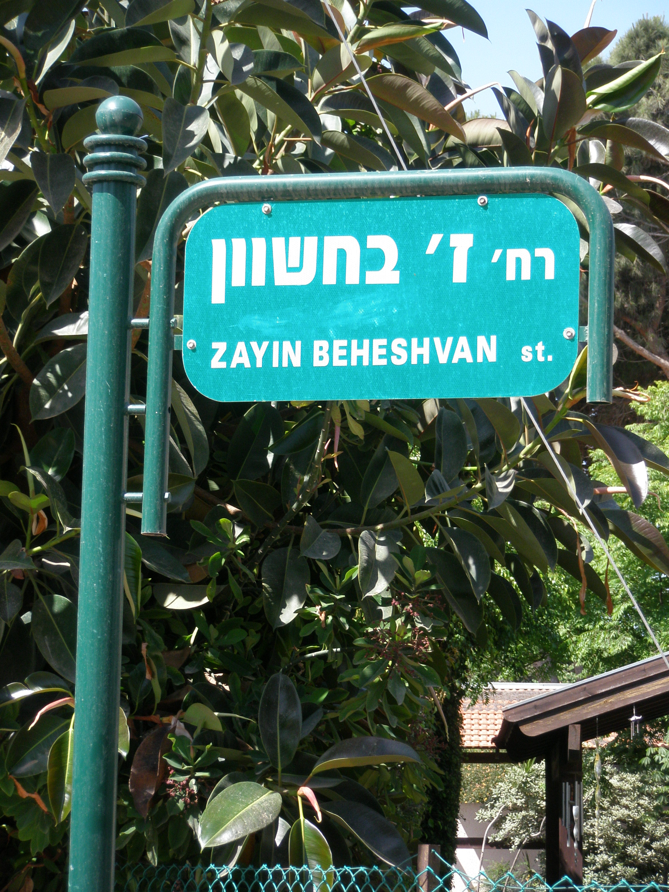 Zayin Beheshvan str., Ramat Hasharon